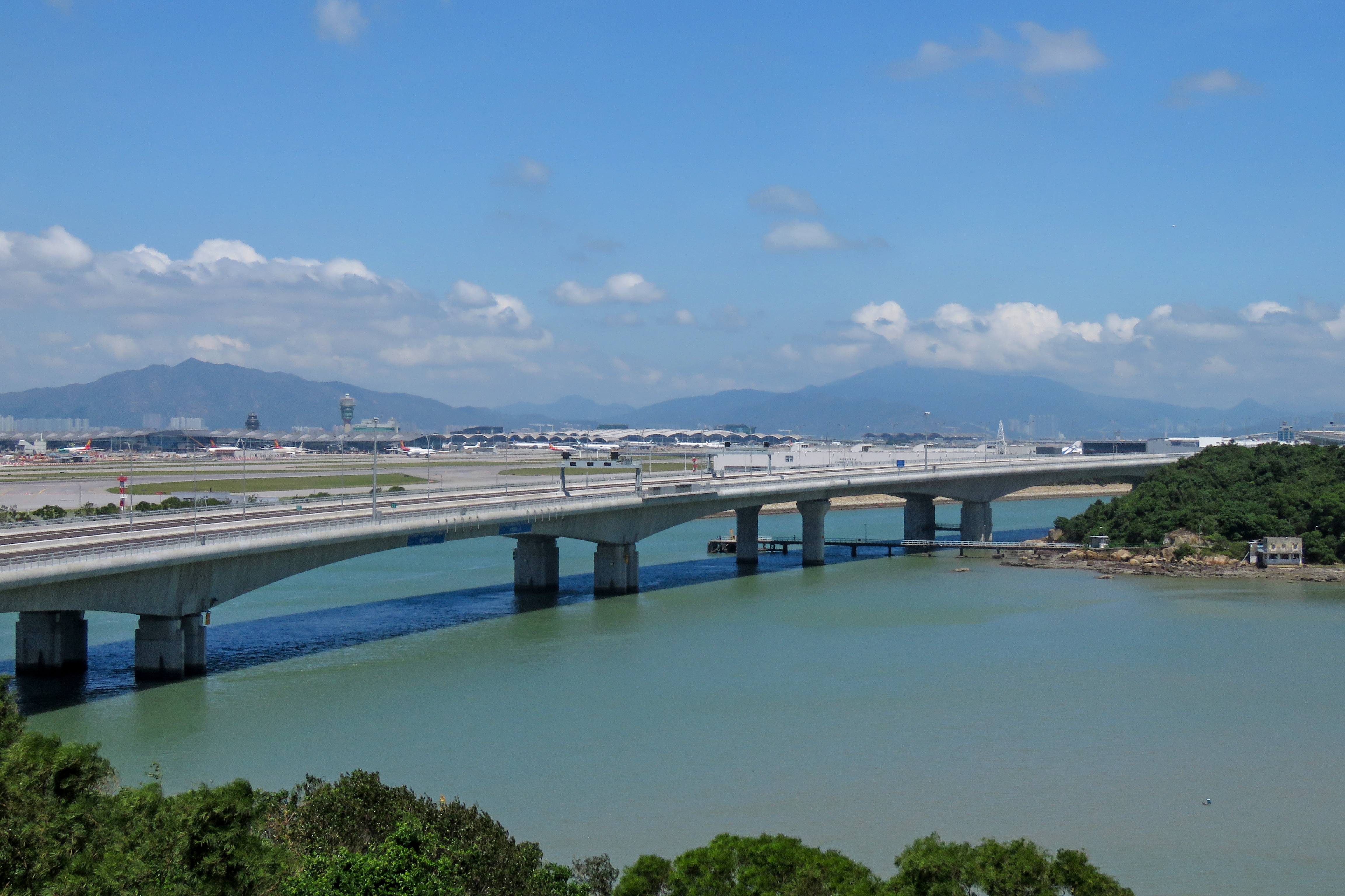 The bridge is intact after typhoon Mangkhut, and I saw several vehicles during the spotting. When will we see MAN A95s on this bridge?